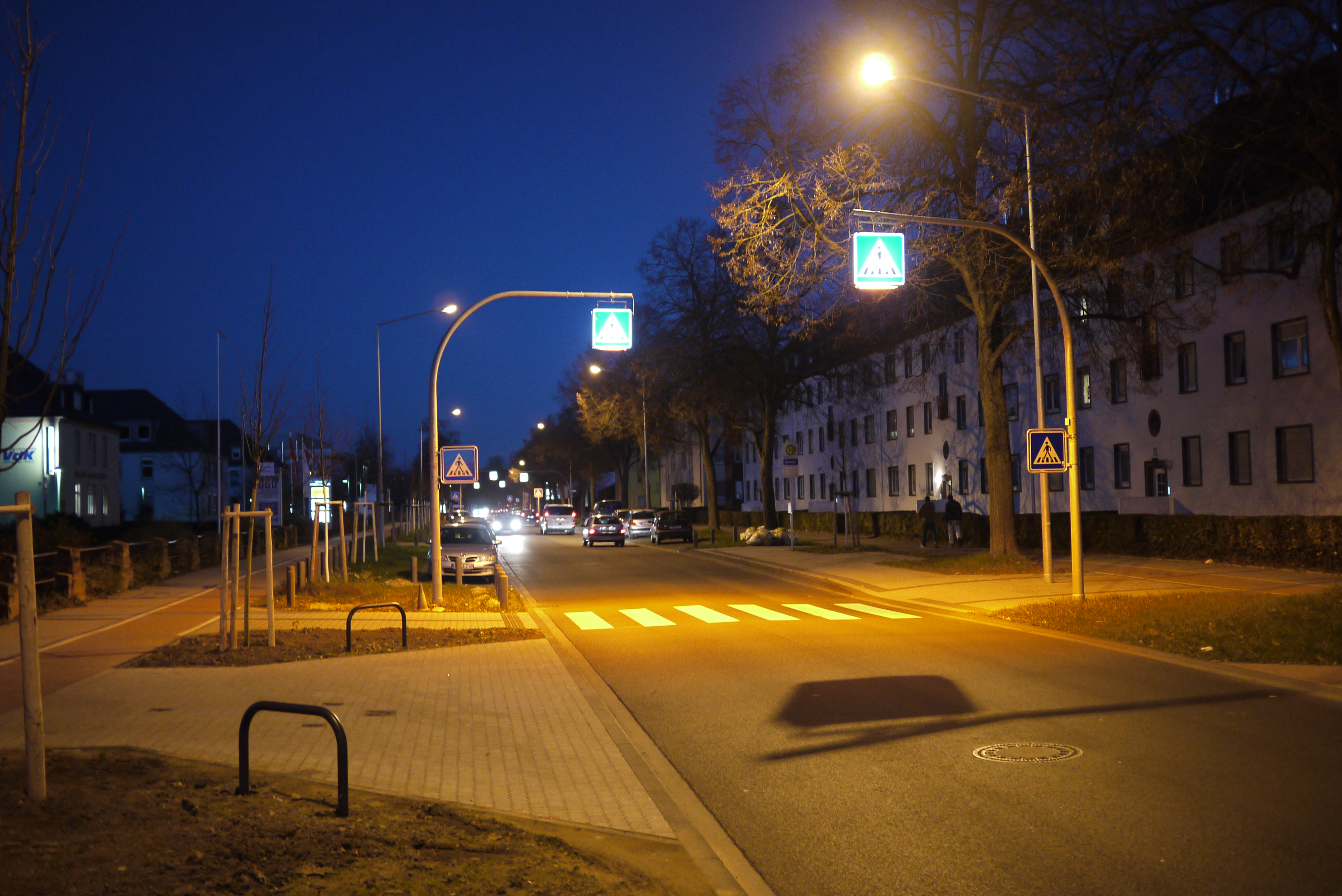 Crosswalk, with built-in lighting marking the transition zone.